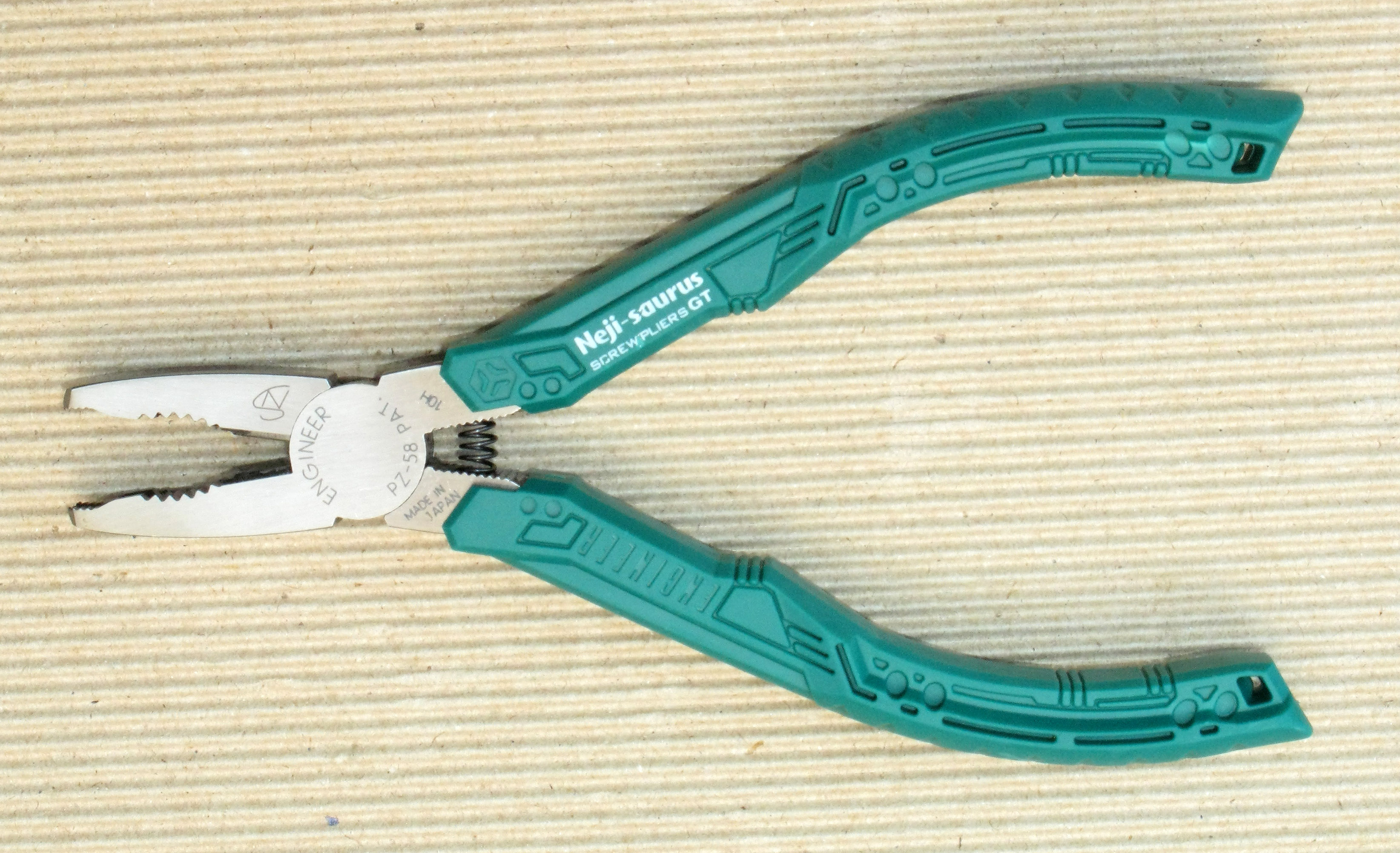 Multi-purpose pliers for removing stuck screws